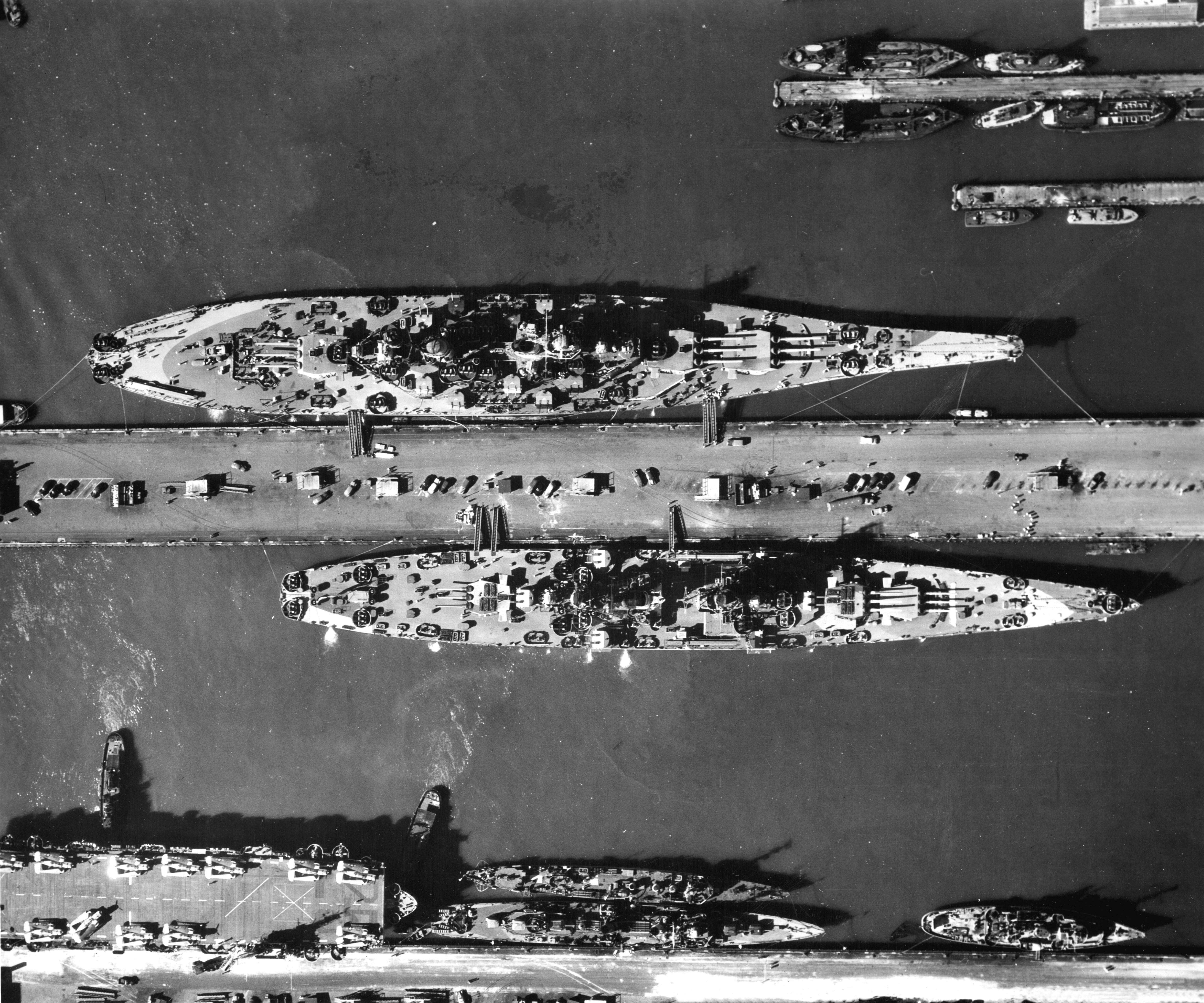 Aerial view of warships at the base piers of Norfolk Naval Base, Virginia (USA), circa August 1944. Among them are: the battleship USS Missouri (BB-63), the largest ship; the battlecruiser USS Alaska (CB-1), on the other side of the pier; the escort carrier USS Croatan (CVE-25), and two destroyers, a Fletcher-class destroyer at the pier and a Clemson/Wilkes-class-destroyer moored outboard.